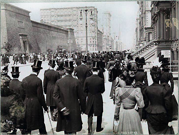 Easter Parade on Fifth Avenue near the Croton Reservoir, New York 1897